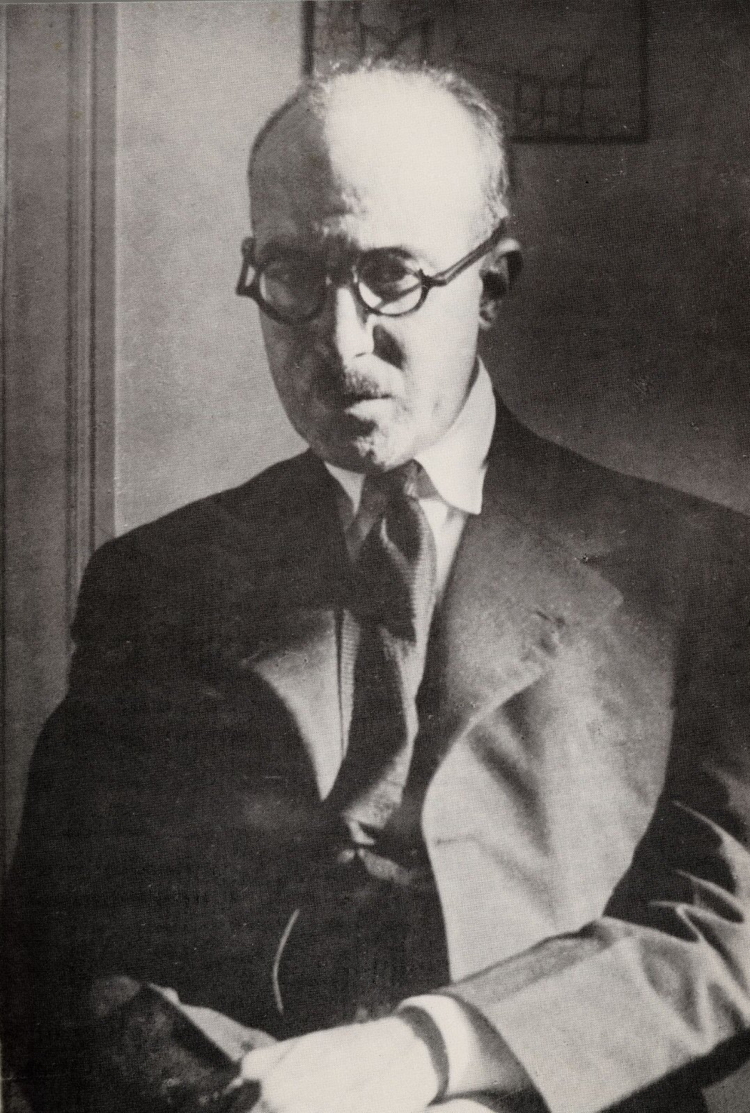 Fernando Pessoa last photo by Augusto Ferreira Gomes.